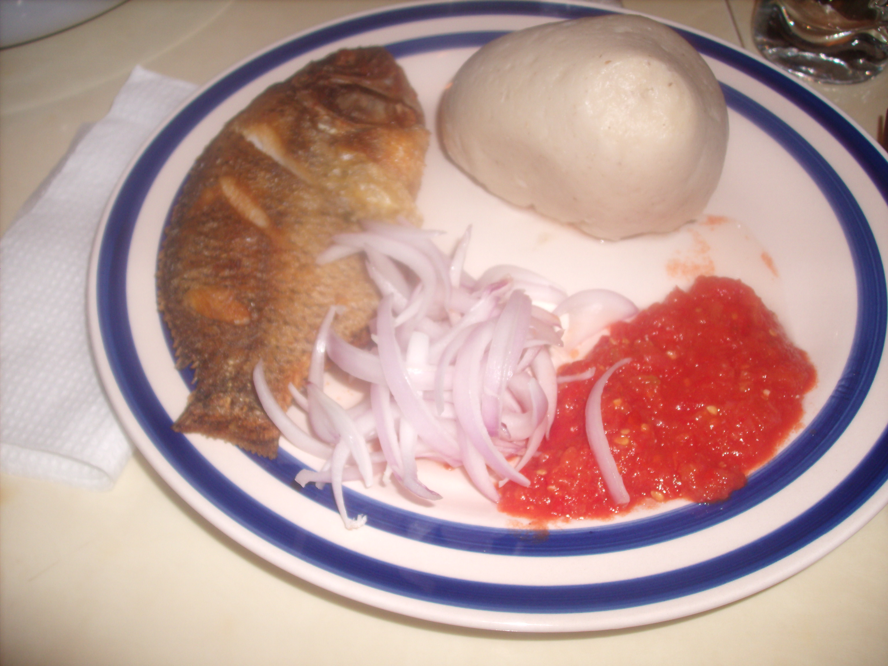 Ghanaian Banku, cuisine dish food presentation, in Ghana.